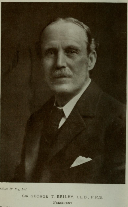 Sir Georg T.Bailby, LL.D,F.R.S. Glasgow, President The Institute of Matals 1916